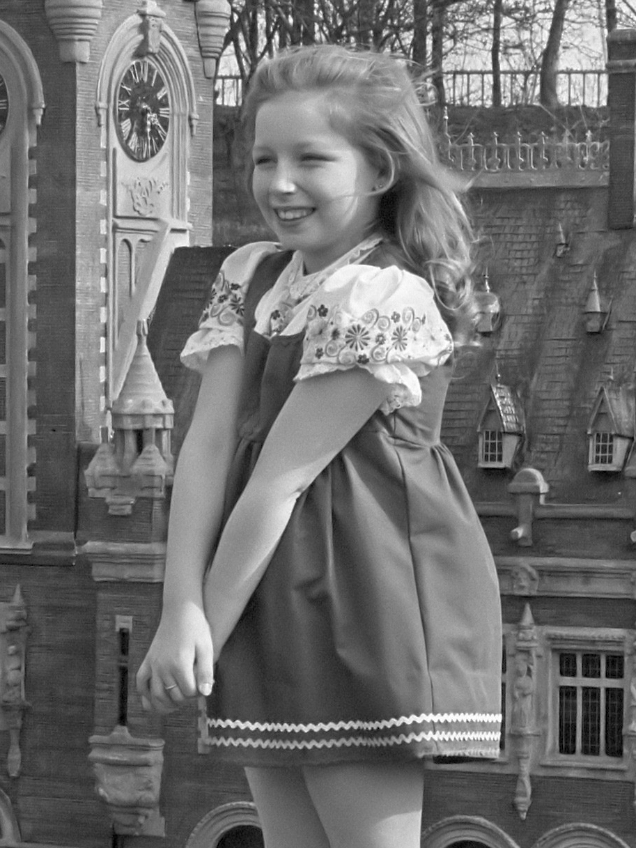 10-jarige zangeresje Lena Zavaroni in Madurodam; Lena bij "Vredespaleis" 30 maart 1974